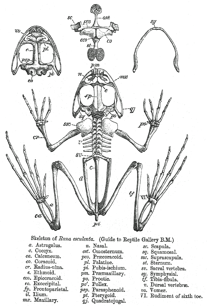 Historical drawing of the skeleton of the common water frog Pelophylax “esculentus” (LINNAEUS, 1758). Top left corner: skull in ventral view. Top center: pectoral girdle in ventral view. Top right: mandible. Also note that the bone labelled “Astragalus” (a) is not entirely homologous to the astragalus in amniotes and today is usually referred to as tibiale. the bone labelled “Calcaneum” (ca) is not entirely homologous to the calcaneum in amniotes and today is usually referred to as fibulare. the bone labelled “Præcoracoid” (pco) is actually the clavicle. the structure labelled “Rudiment of sixth toe” (VI) today is usually referred to as prehallux and that its nature as a rudiment is controversial.